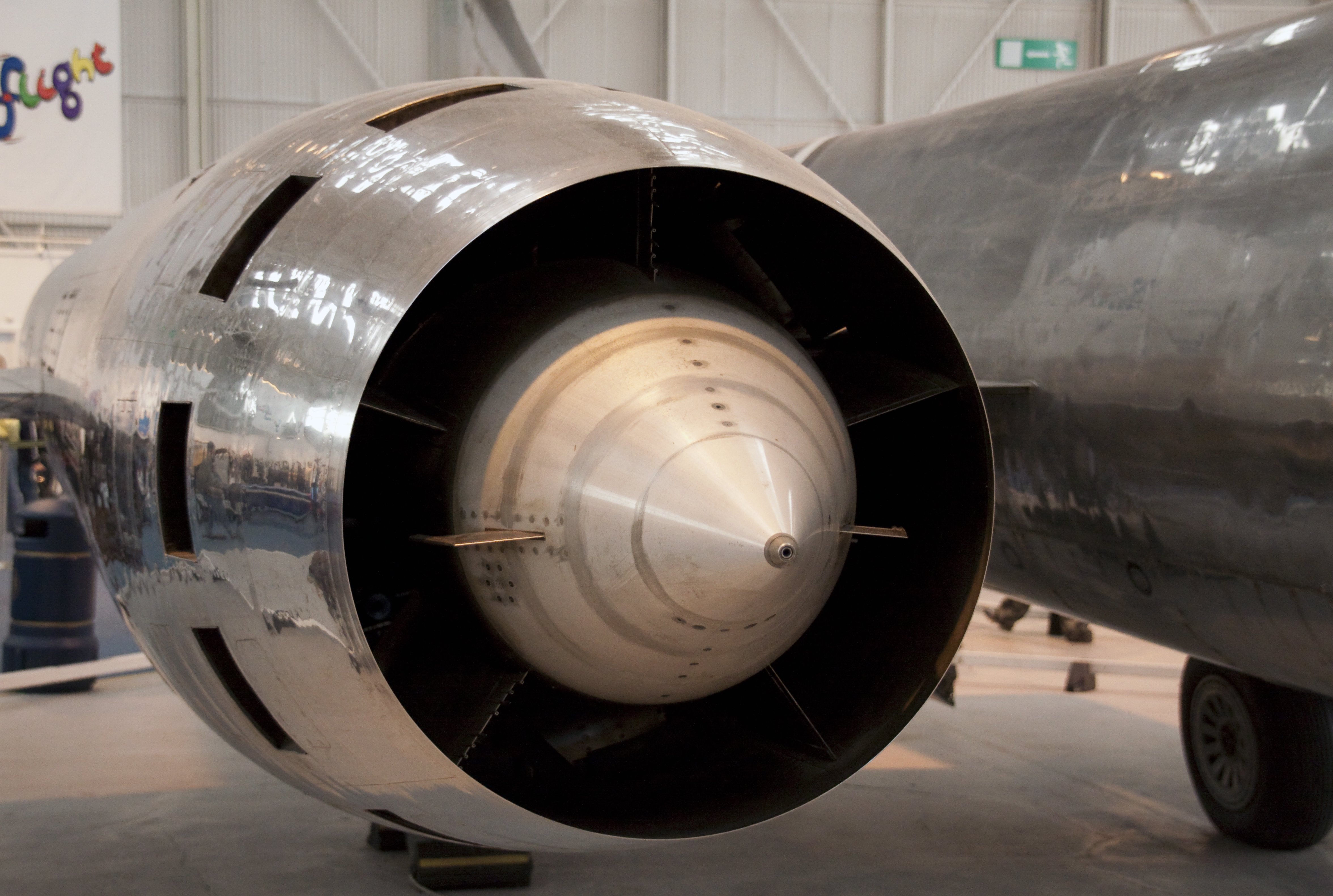 Bristol 188 2